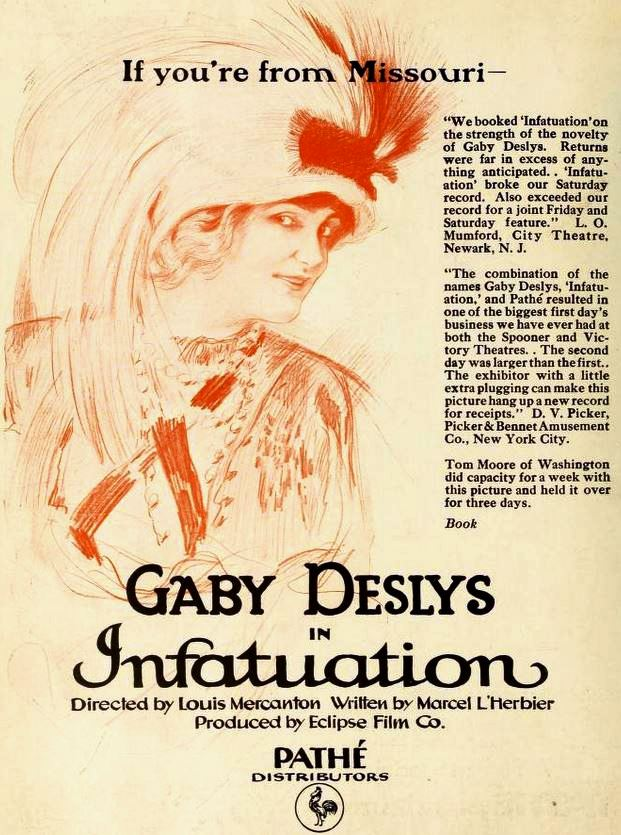 Ad for the film Infatuation (1918) with Gaby Deslys, from the color inserts after page 1826 of the June 21, 1919 Moving Picture World. This film is not listed in the IMDb, but the ad states that it was directed by Louis Mercanton and was written by Marcel L'Herbier, which matches the IMDb description of Bouclette (1918), which it describes as a French film but provides no studio company credits. The book The Encyclopedia of Vaudeville (University of Mississippi Press: 2002) by Anthony Slide at page 128 says Gaby Deslys costarred with dance partner Harry Pilcer in Infatuation, which was released in the United States on Dec. 1, 1918, which is also consistent with the IMDb description of Bouclette. As such, Infatuation may be the U.S. title for Bouclette, or vice versa.